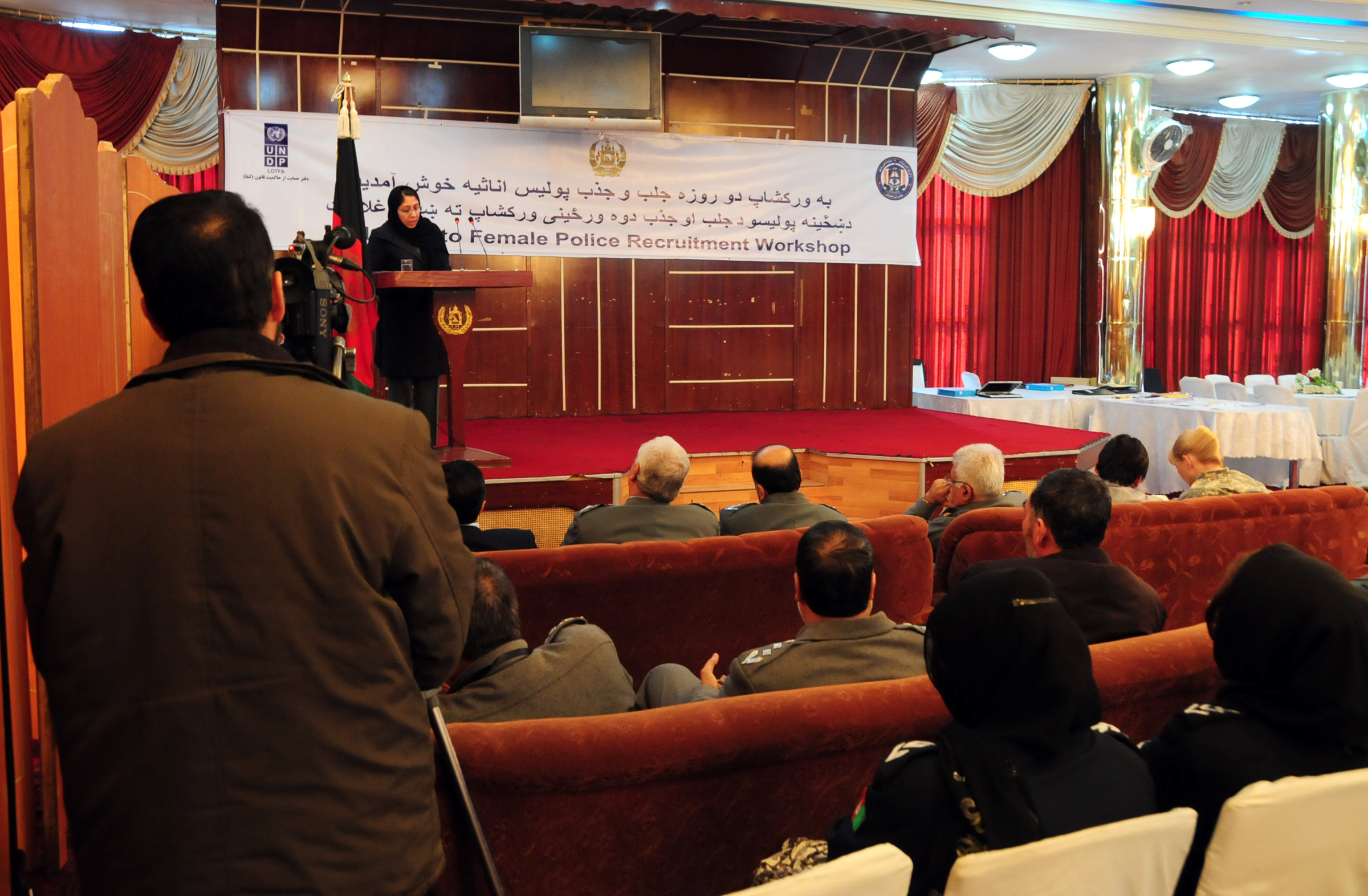 100202-F-1020B-018 Kabul - Col. Shafiqa Quraishi, Director of the Afghan National Police Gender Mainstreaming Unit, speaks at an ANP female recruiting conference Feb. 1, 2010. The two-day conference covered how to recruit and train the additional 5,000 women that Afghan President Hamid Karzai has mandated be added to the police force by 2014. (U.S. Air Force photo by Staff Sgt. Sarah Brown/RELEASED)